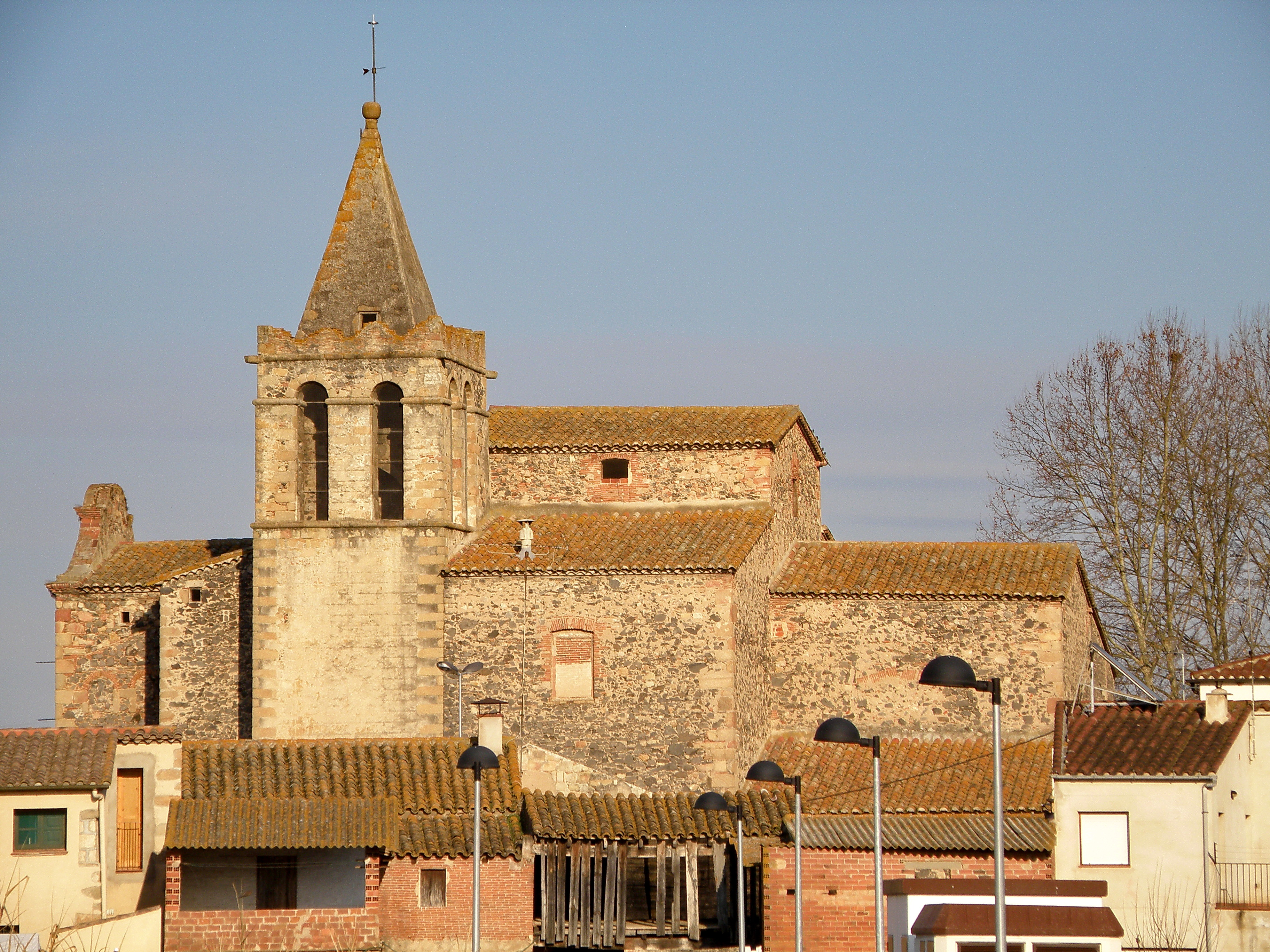 Saint Martí church of Riudarenes